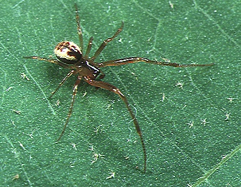 male Anelosimus crassipes from Okinawa.